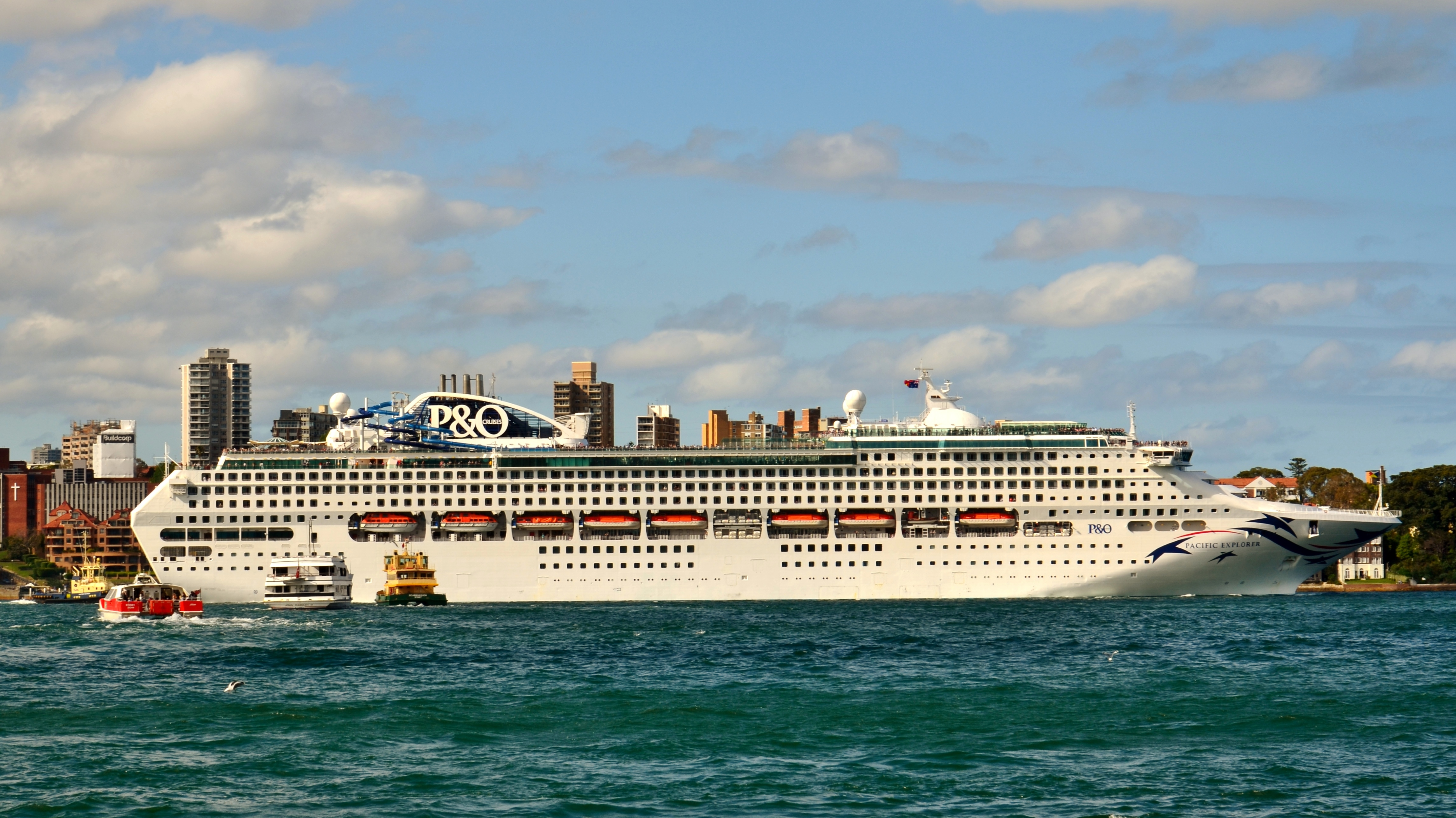 P&O Australia cruise ship Pacific Explorer moves through Sydney Harbour shortly after her departure from White Bay Cruise Terminal. Photo taken from the Circular Quay ferry wharf.